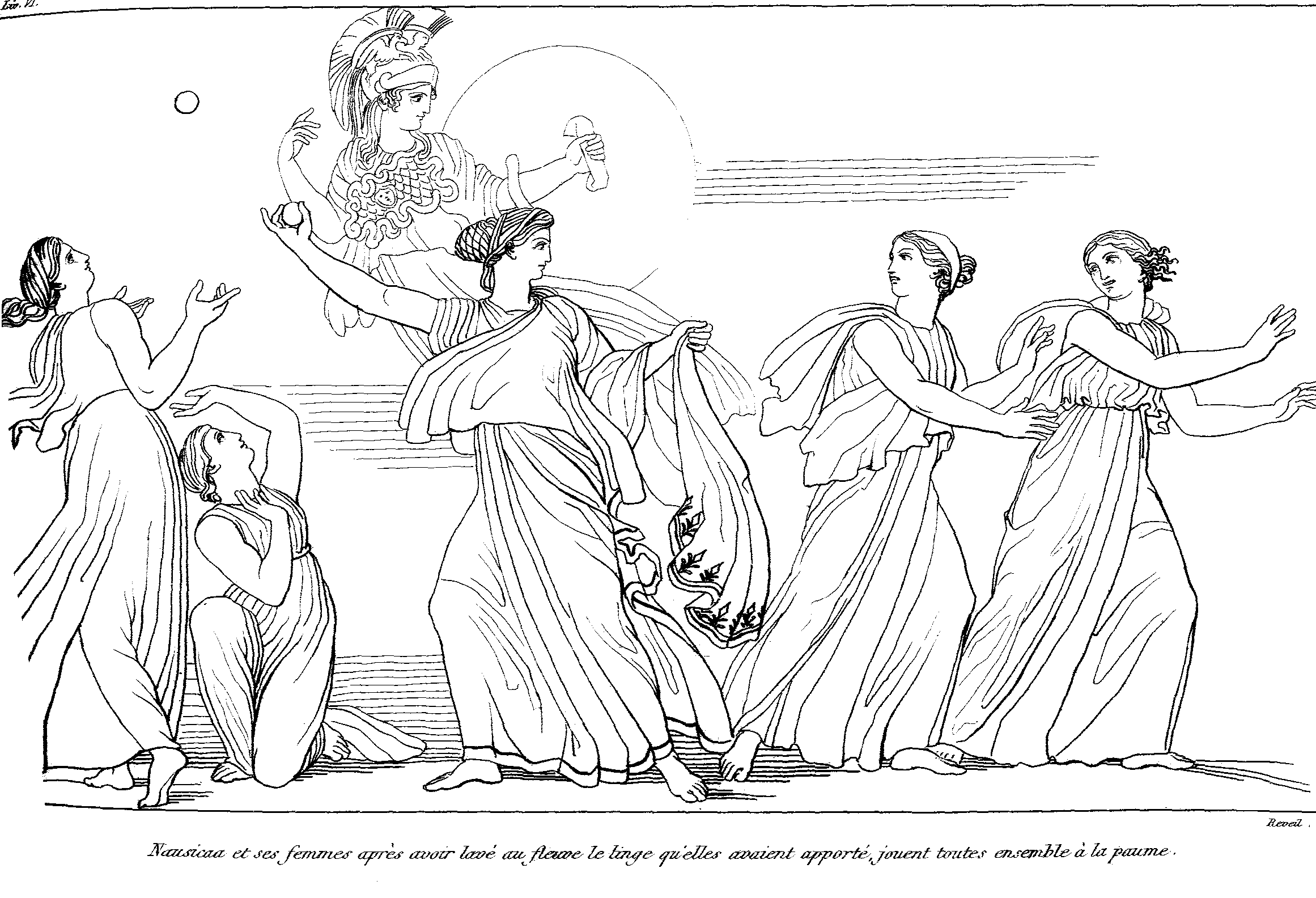 Illustrations of Odyssey by John Flaxman.